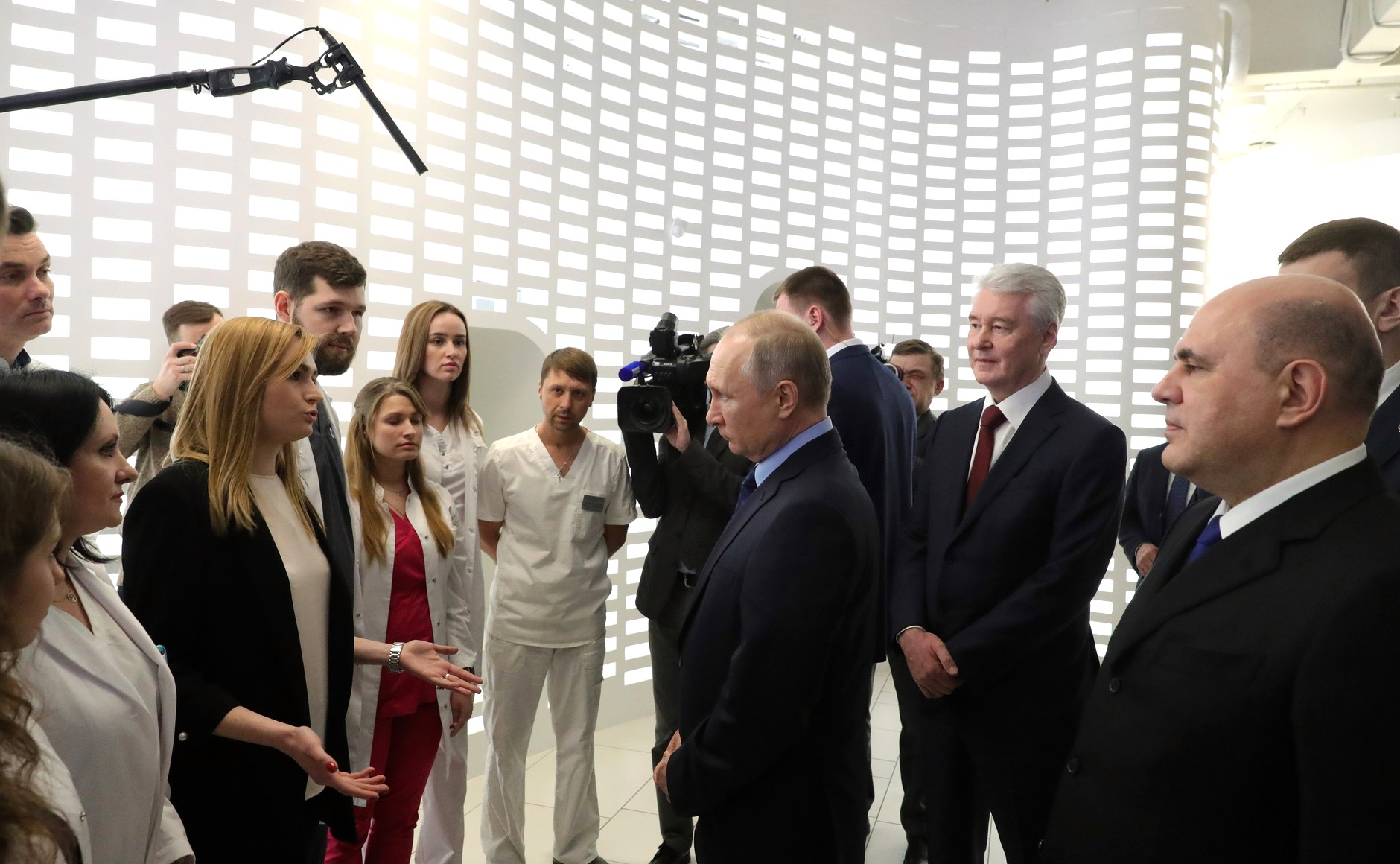 Vladimir Putin visited the information centre monitoring the situation around the coronavirus in Moscow, Russia and abroad.